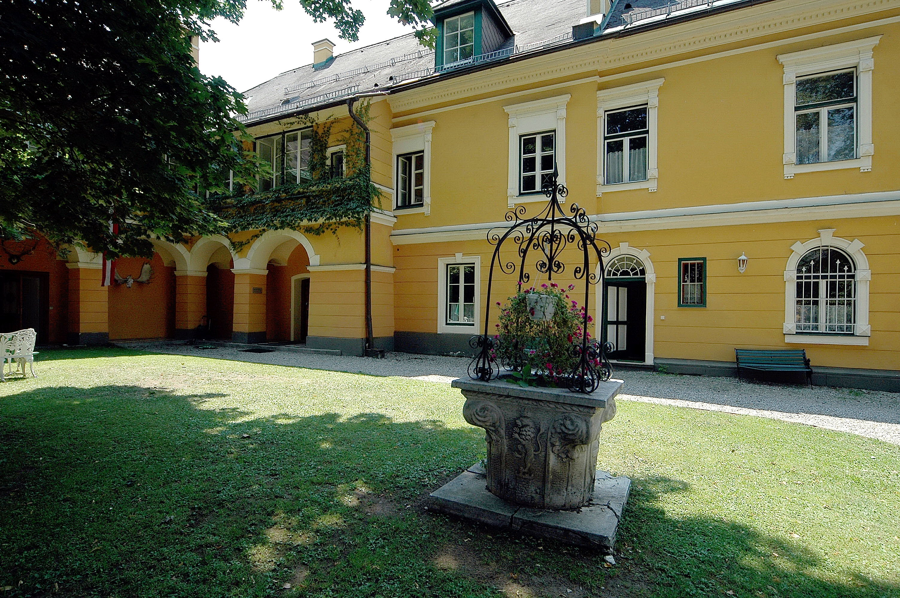 Castle “Sankt Georgen am Sandhof” in the 9th district "Annabichl" of Klagenfurt, the capital of the state Carinthia, Austria